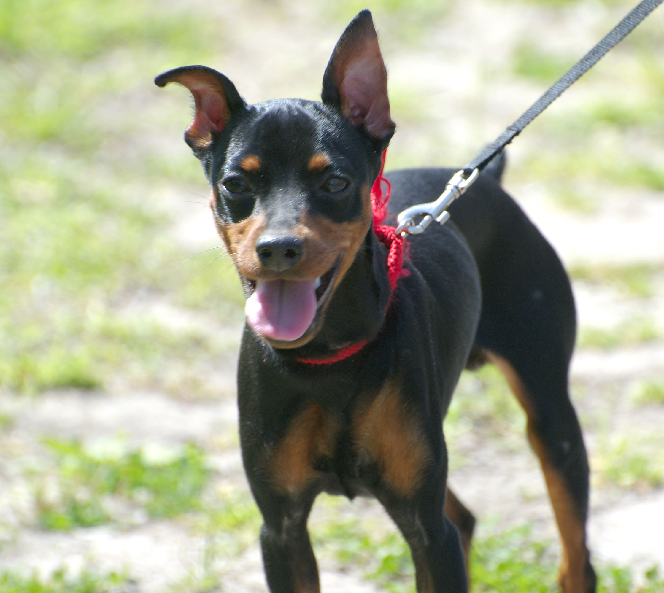 A Miniature Pinscher (I'm reasonably sure. The image page says it's a "toy Doberman". There's no such thing as a toy Doberman, so a MinPin seems a logical choice).